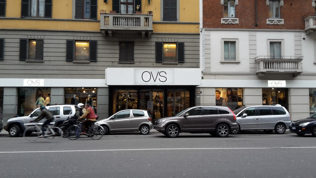 Department store OVS in Milan.